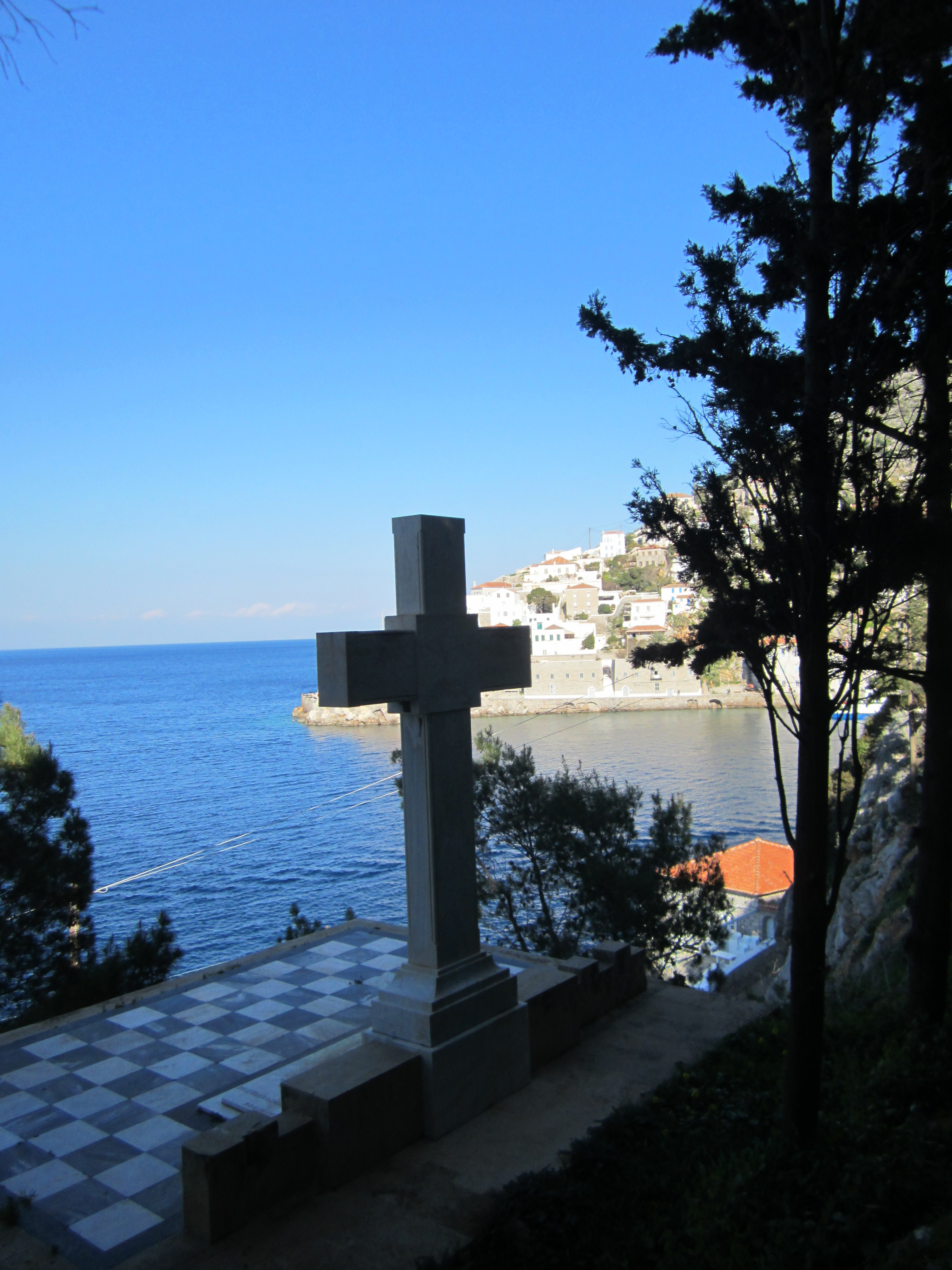 Cross over the grave of admiral Pavlos Kountouriotis, island of Hydra, Greece